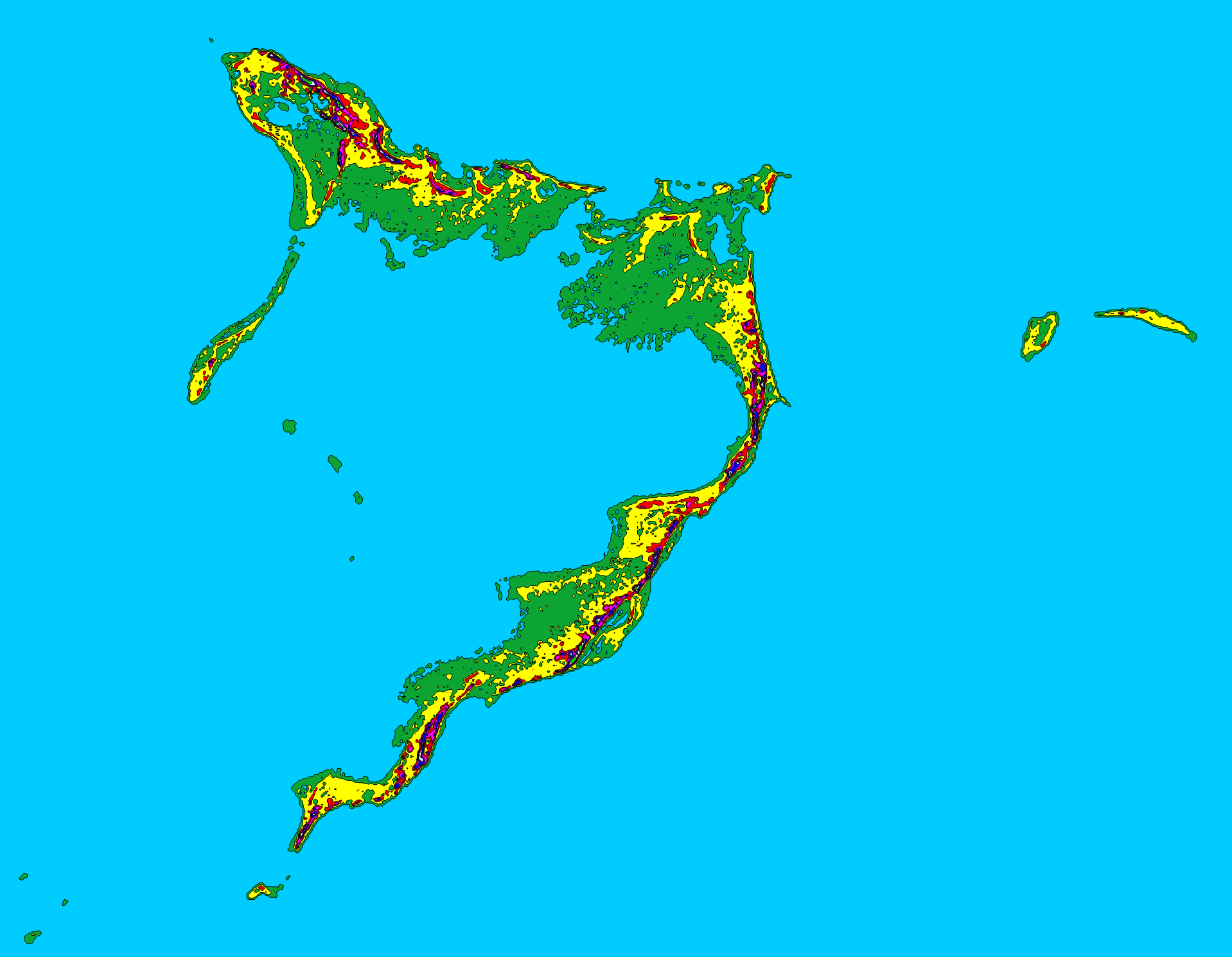 Topographic map of Acklins Island, Crooked Island, and Long Cay in the Bahamas shaded at 15 foot (4.572 meter) contour intervals. MAP KEY Light Blue: 0 ft (0.0 m) Green: 0-15 ft (0.0-4.6 m) Yellow: 15-30 ft (4.6-9.1 m) Red: 30-45 ft (9.1-13.7 m) Violet: 45-60 ft (13.7-18.3 m) Blue: 60-75 ft (18.3-22.9 m) White: 75-90 ft (22.9-27.4 m) Light Green: 90+ ft (27.4+ m) Map created with SRTM3 digital elevation data ( Resolution is ~90 meters.